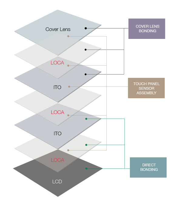 3 applications of liquid optically clear adhesives